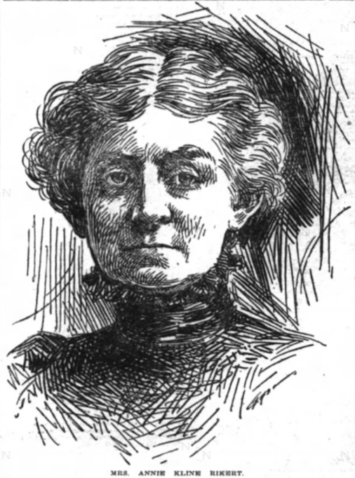 Mrs. Annie Kline Rikert. Owner of Stockton and Tuolumne County Railroad Company. Woman miner in California.